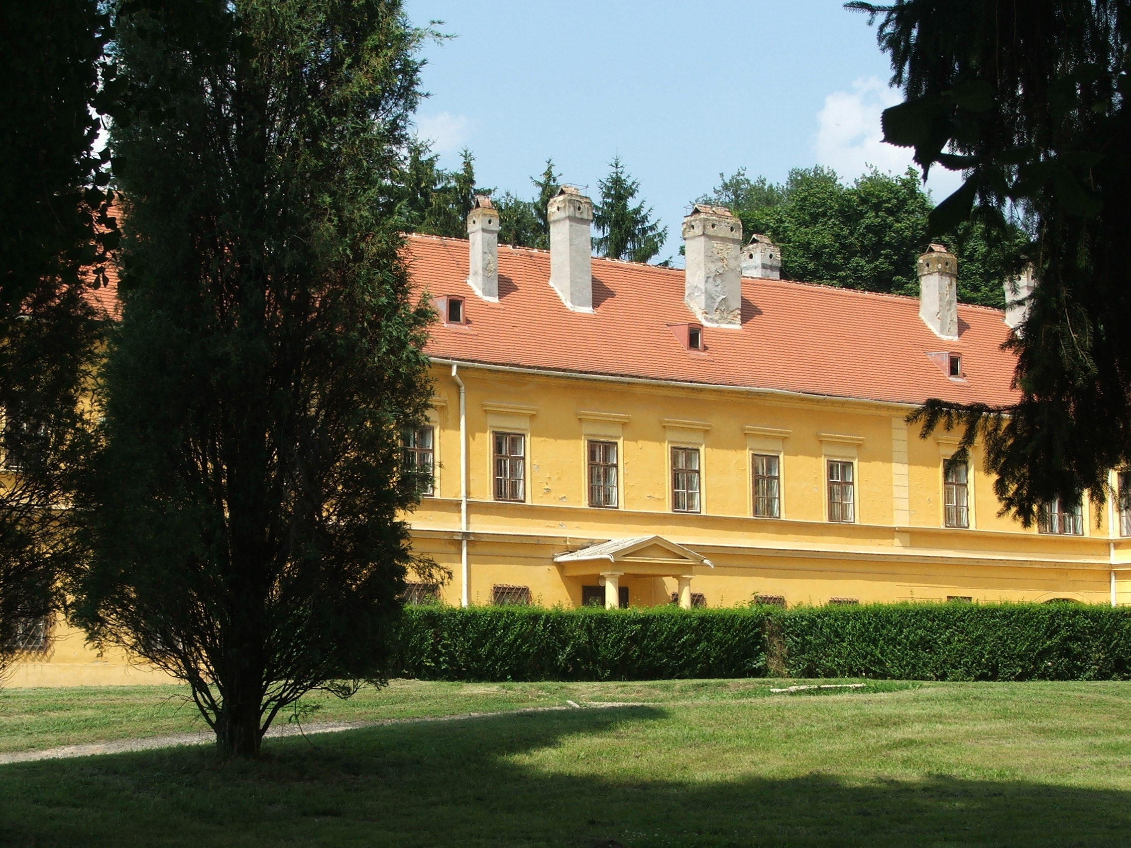 Széchenyi Mansion, Somogyvár